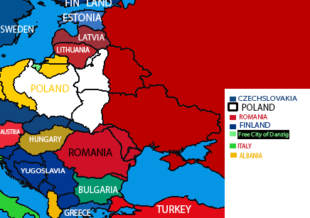 A map showing "Ukraine"